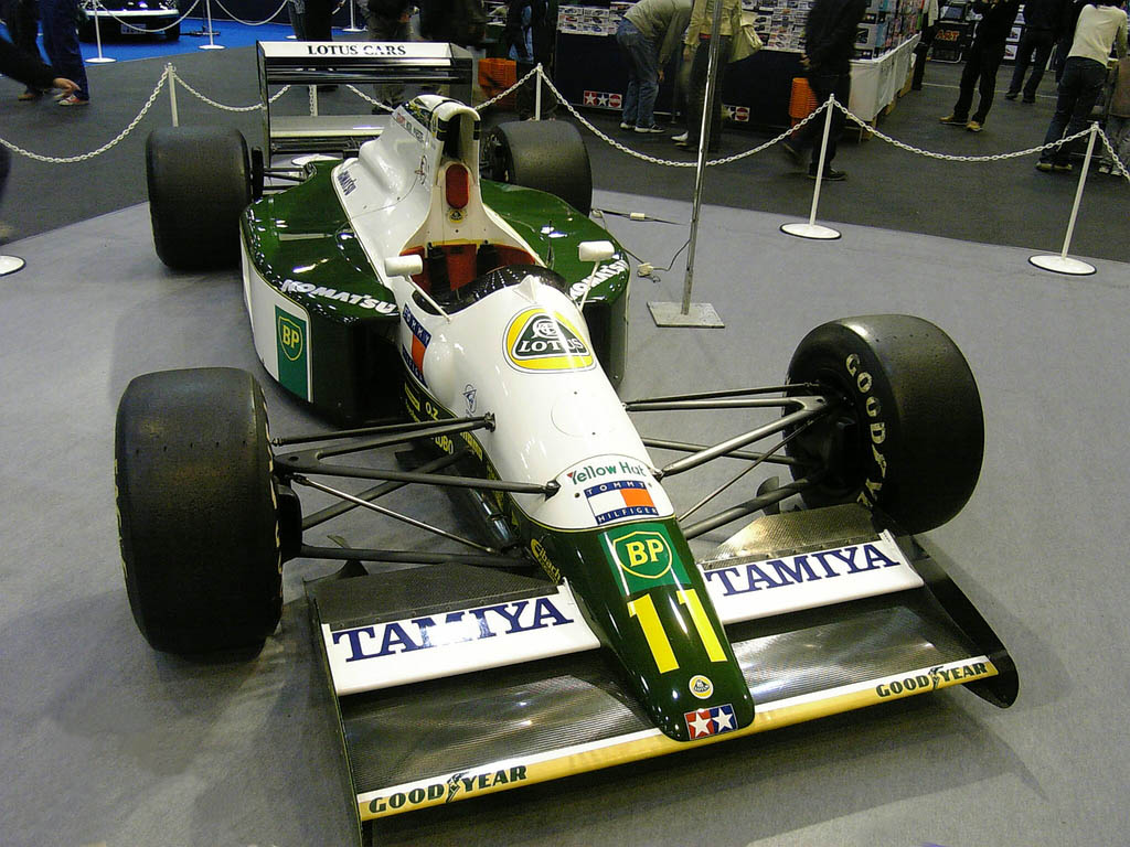 The Lotus 102B Formula One car being exhibited in Japan. Owner: Tamiya Corporation